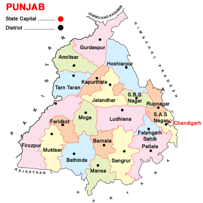 of districts of Punjab, India 2014